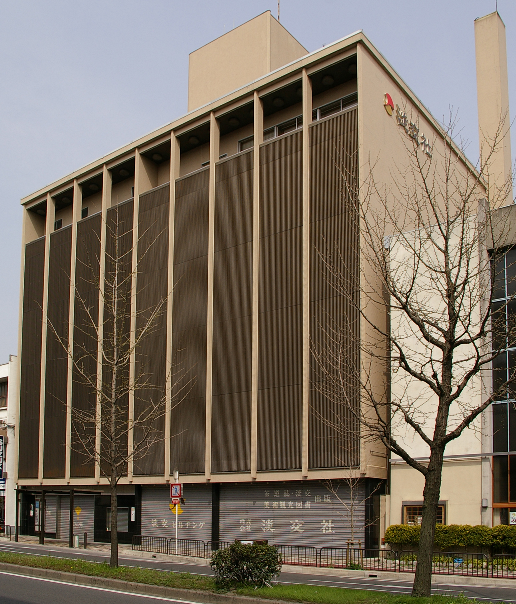 Photograph of Tanko Building, headquarters of Tankosha Publishing Co., Ltd. in Kita-ku, Kyoto, Kyoto Prefecture, Japan.